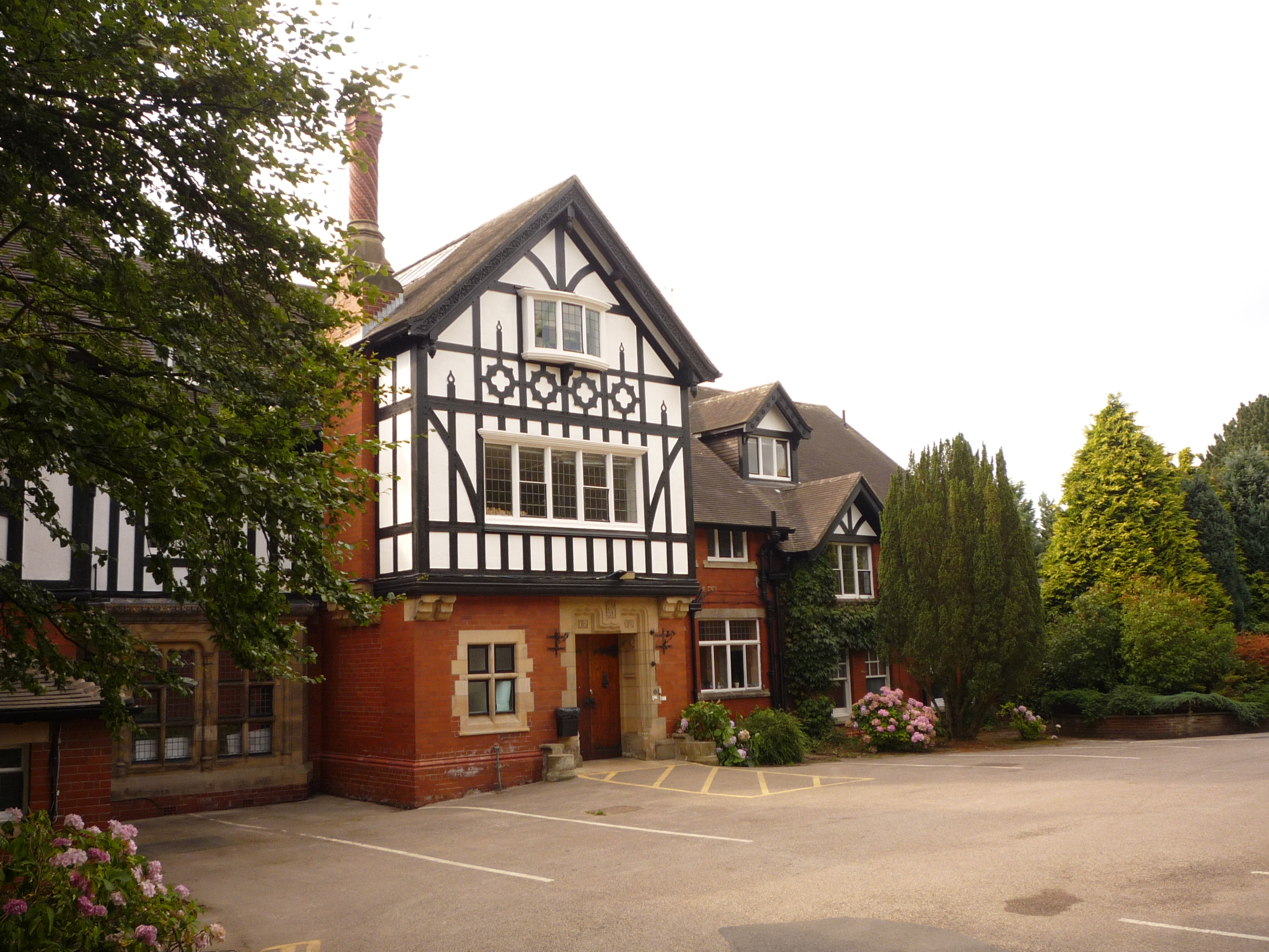 Bailrigg House (part of Lancaster University)